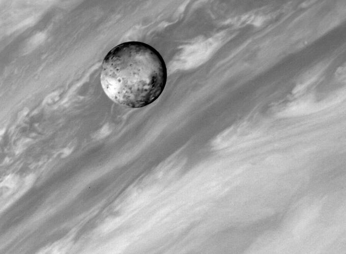 Original Caption Released with Image: This photo of Jupiter's satellite Io was taken by Voyager 1 about 4:30 p.m. (PST) March 2, 1979. The spacecraft was about 5 million miles (8.3 million kilometers away). Voyager 1 was mapping Jupiter with the cameras and infrared instrument at the time the picture was taken. The hemisphere seen here is the one that always faces away from Jupiter. This photo shows details on Io never before seen. The smallest features are about 38 miles (70 kilometers) across. Near the center and slightly to the right can be seen several round features with dark centers and bright rims. They may be the first craters ever observed on Io. At this resolution scientists still cannot tell much about the origin of the features, which could be impact craters or of internal (volcanic) origin. No ray or ejecta patterns are obvious at this resolution.